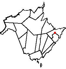 Locator map of Moncton, New Brunswick.